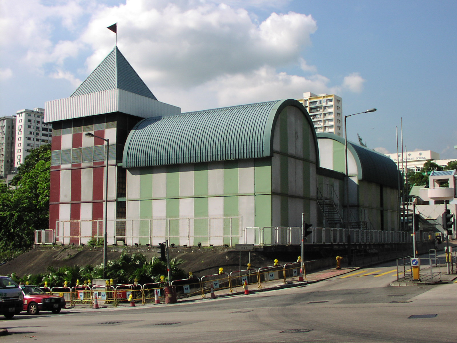 Former site of Hong Kong Housing Authority Exhibition Centre